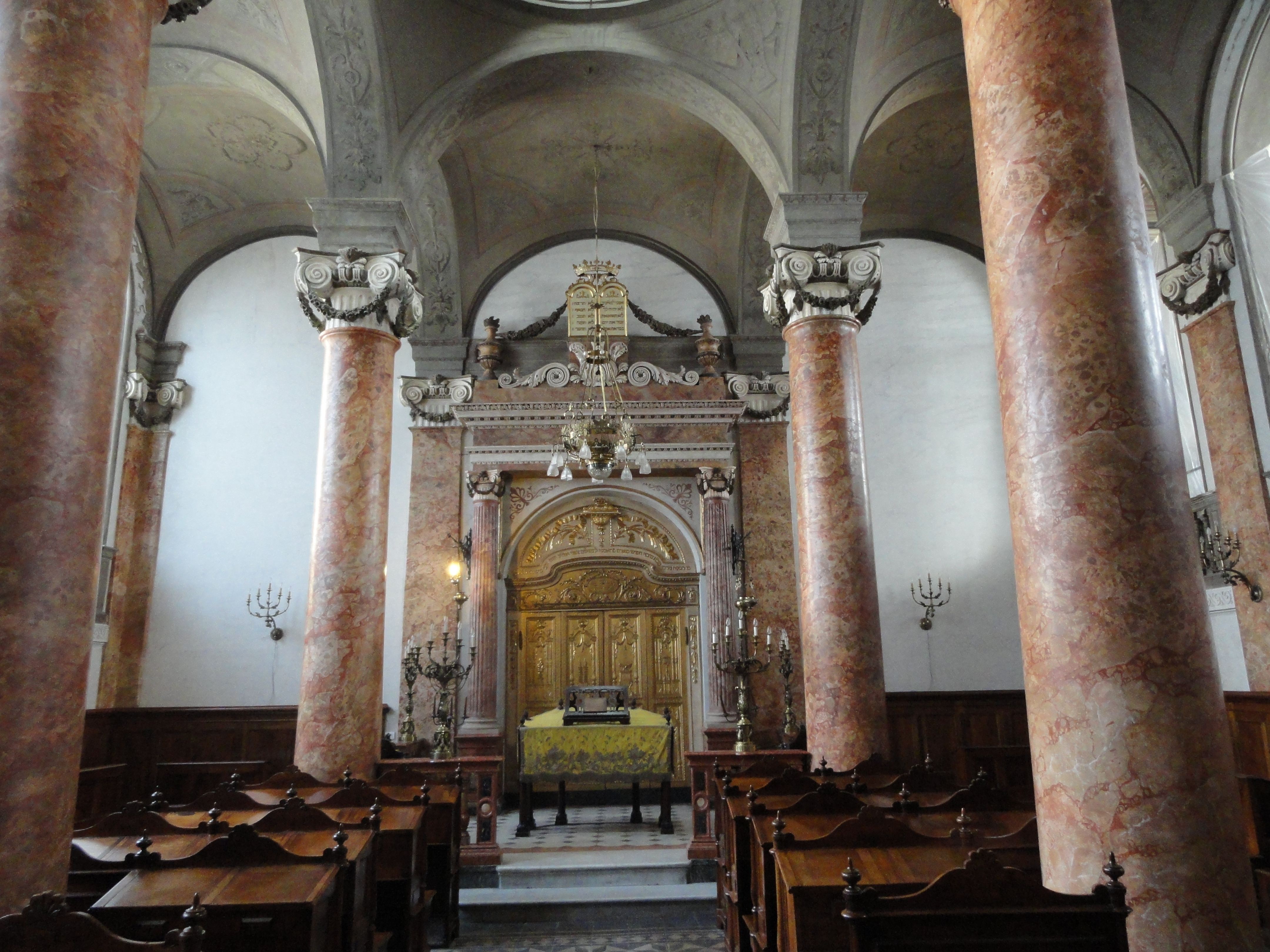 General inside view of the synagogue of Asti (Piemnte -Italy)